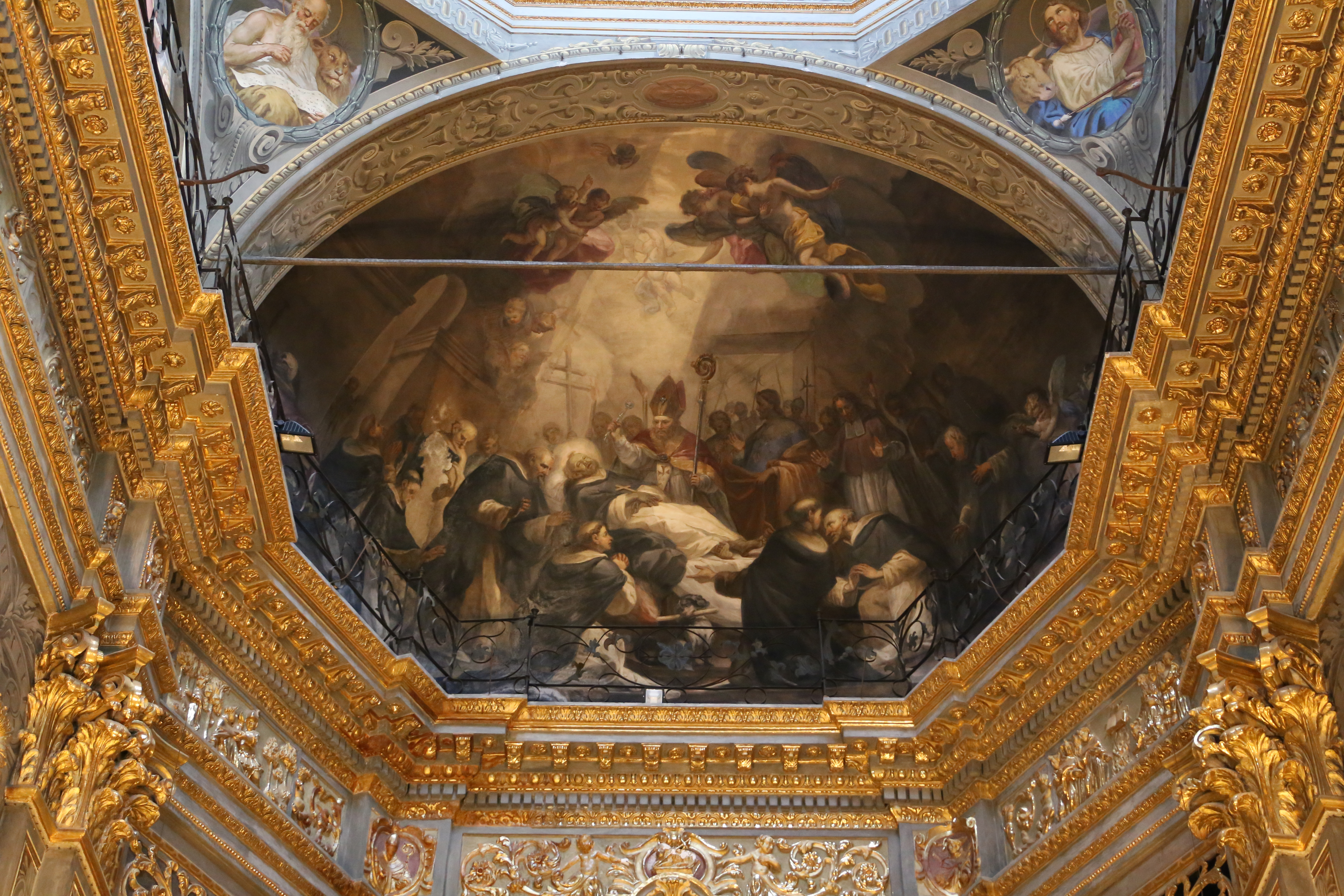 San Giovanni Battista in San Domenico (Savona)